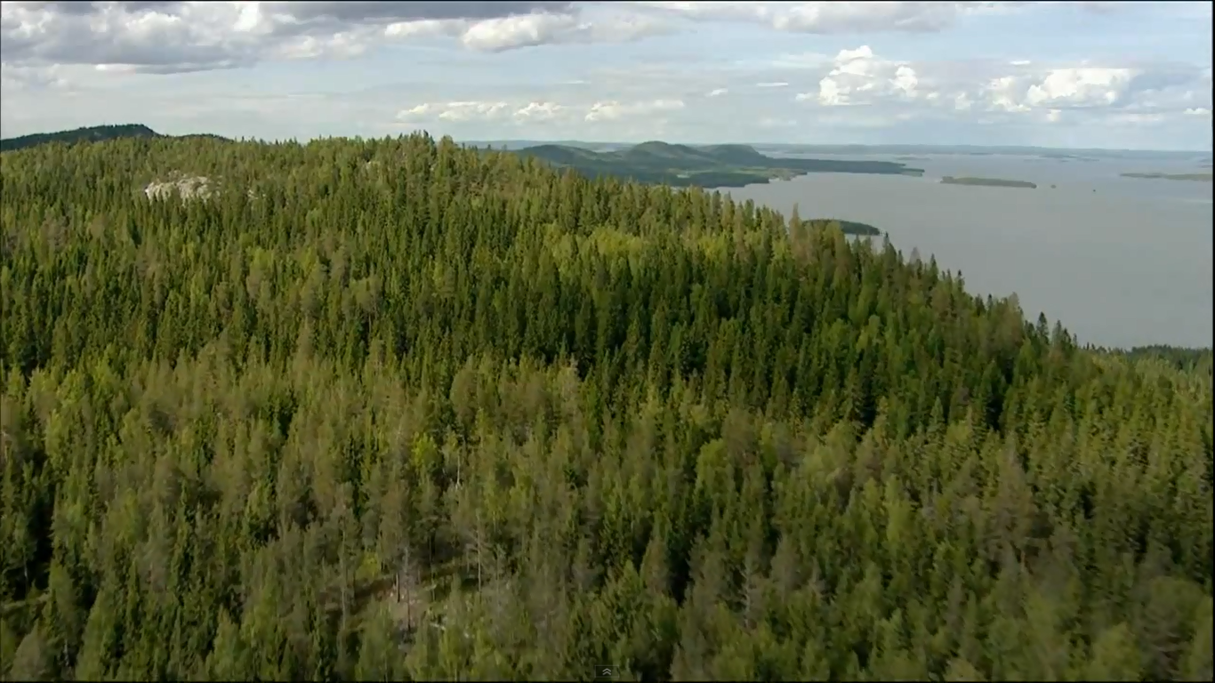 A beuatiful scene in Finland